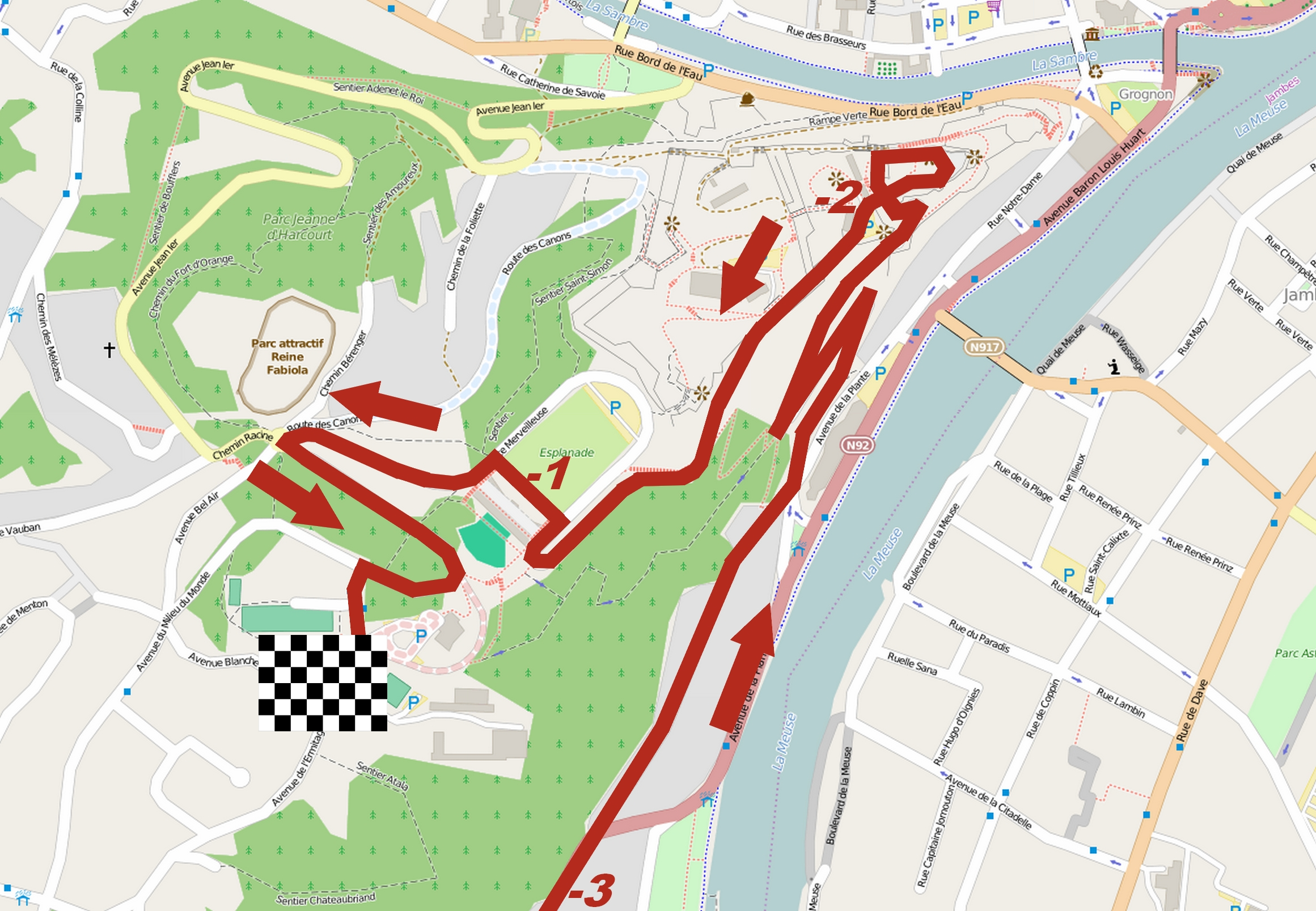 Parcours des derniers kilomètres du Grand Prix de Wallonie 2014. This map may be incomplete, and may contain errors. Don't rely solely on it for navigation.